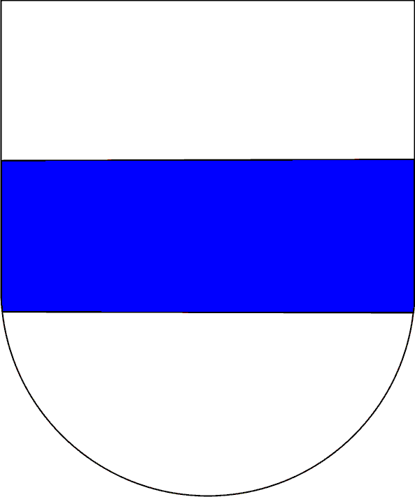 coat of arms